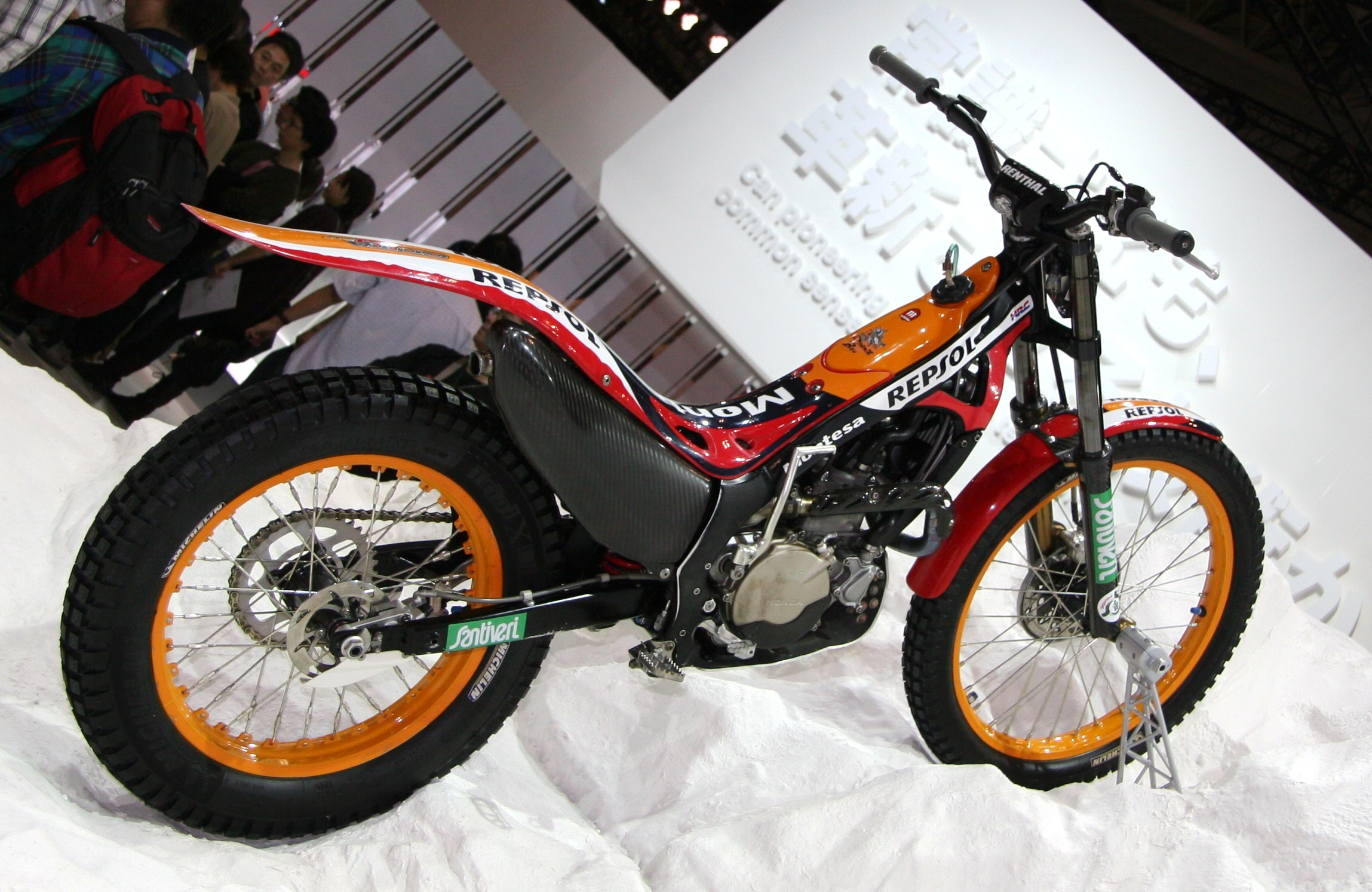 Honda Cota